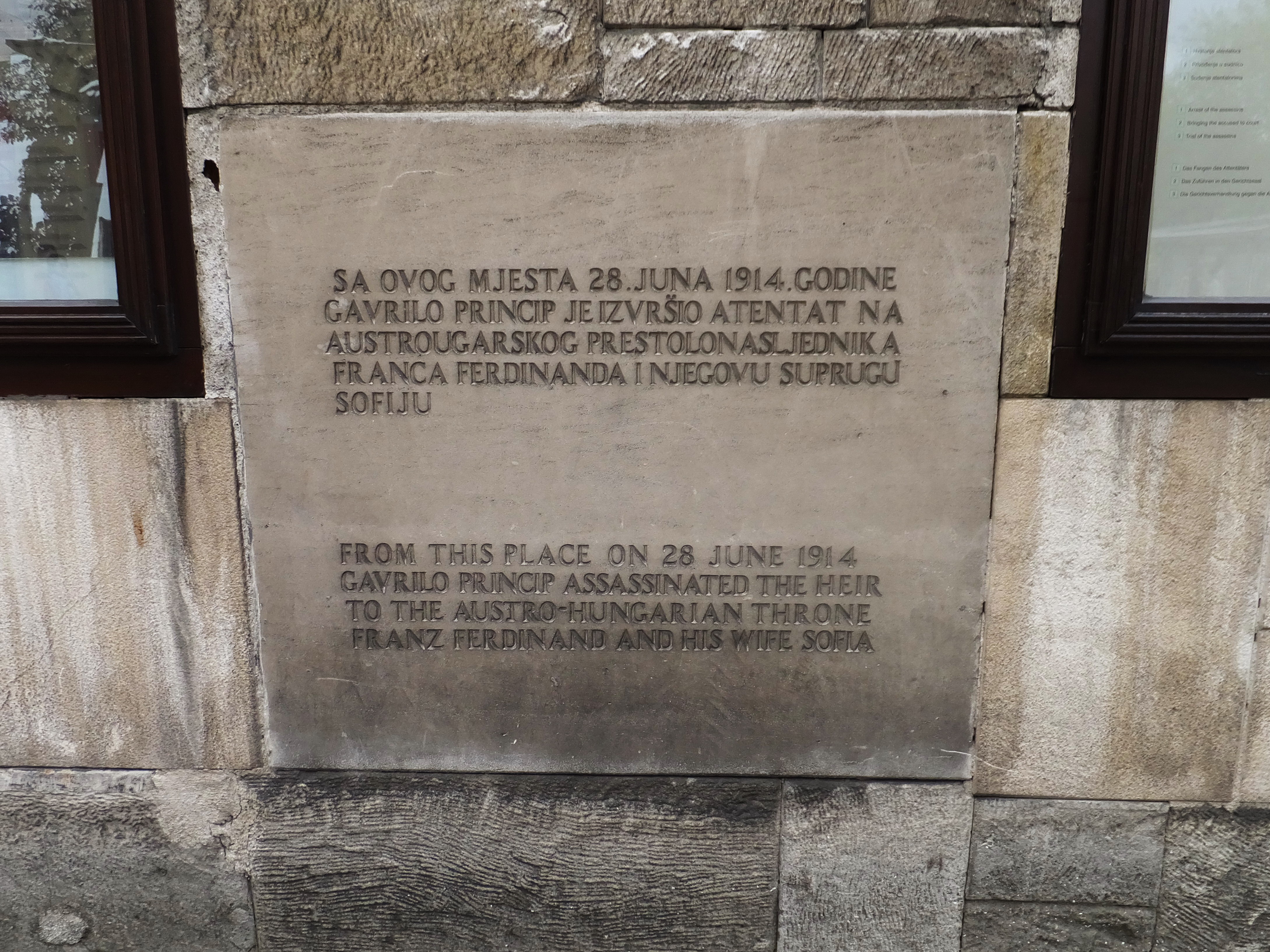 Location of Sarajevo Assassination 賽拉耶佛暗殺處